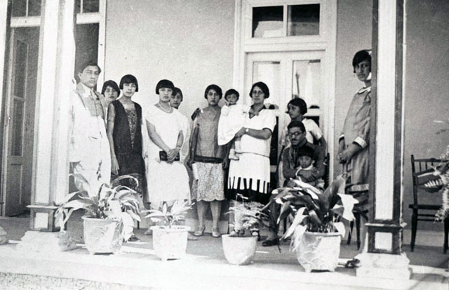 Afghan women in the 1920's and women's rights in Afghanistan.